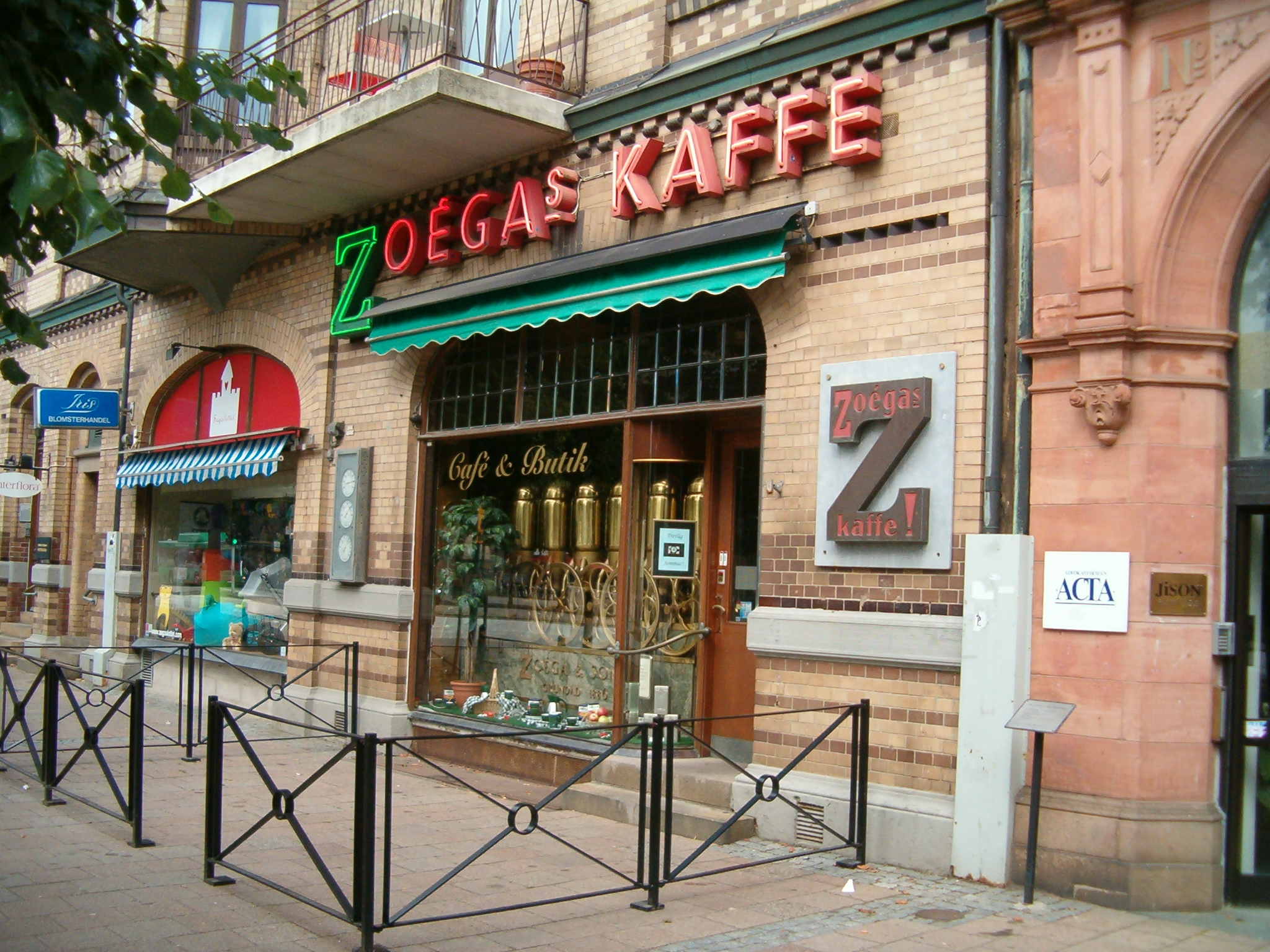 Zoégas Coffee Shop and Store in Helsingborg, Sweden